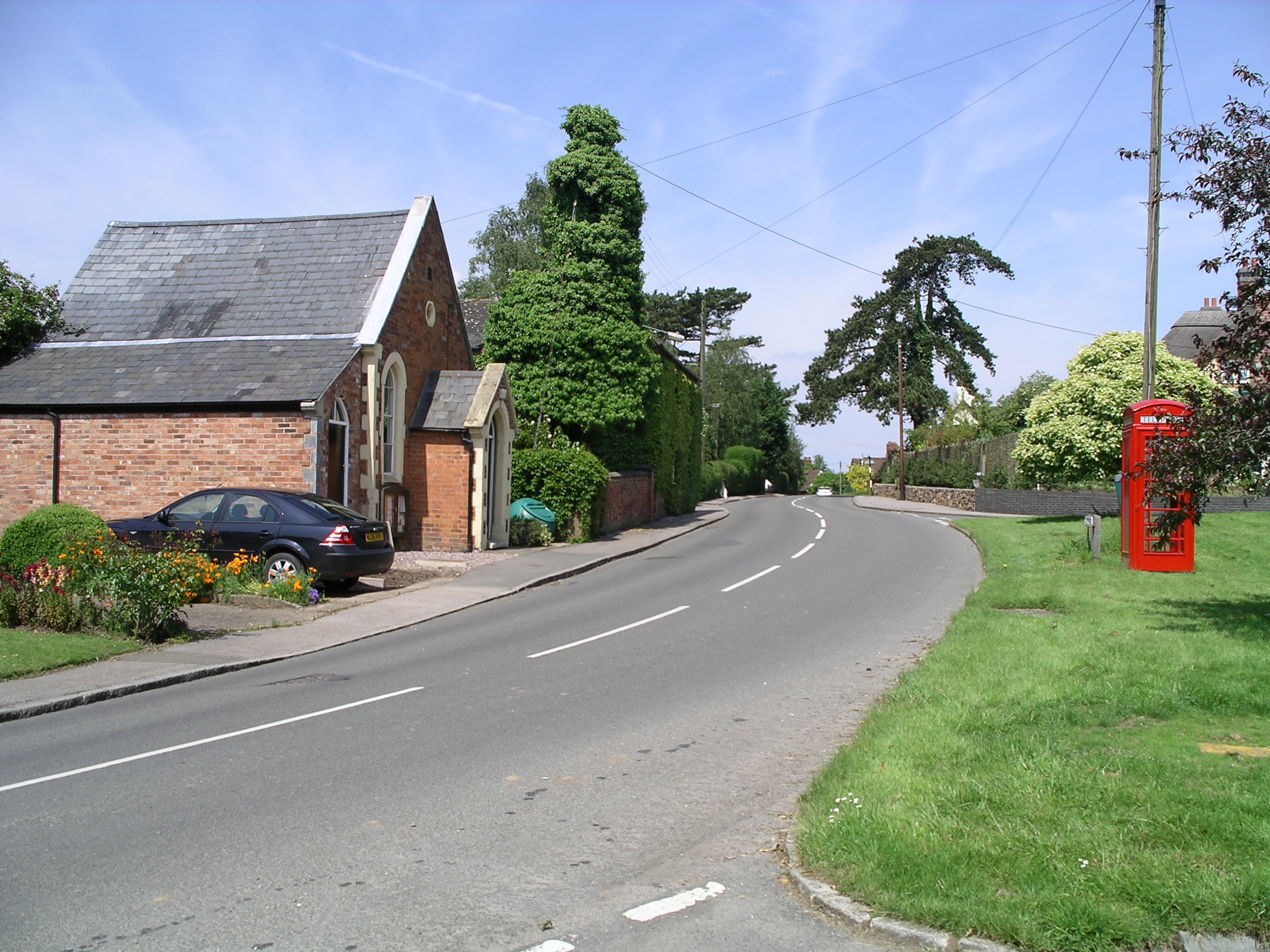 Photo of the main road in Easenhall, a small village in Warwickshire, England